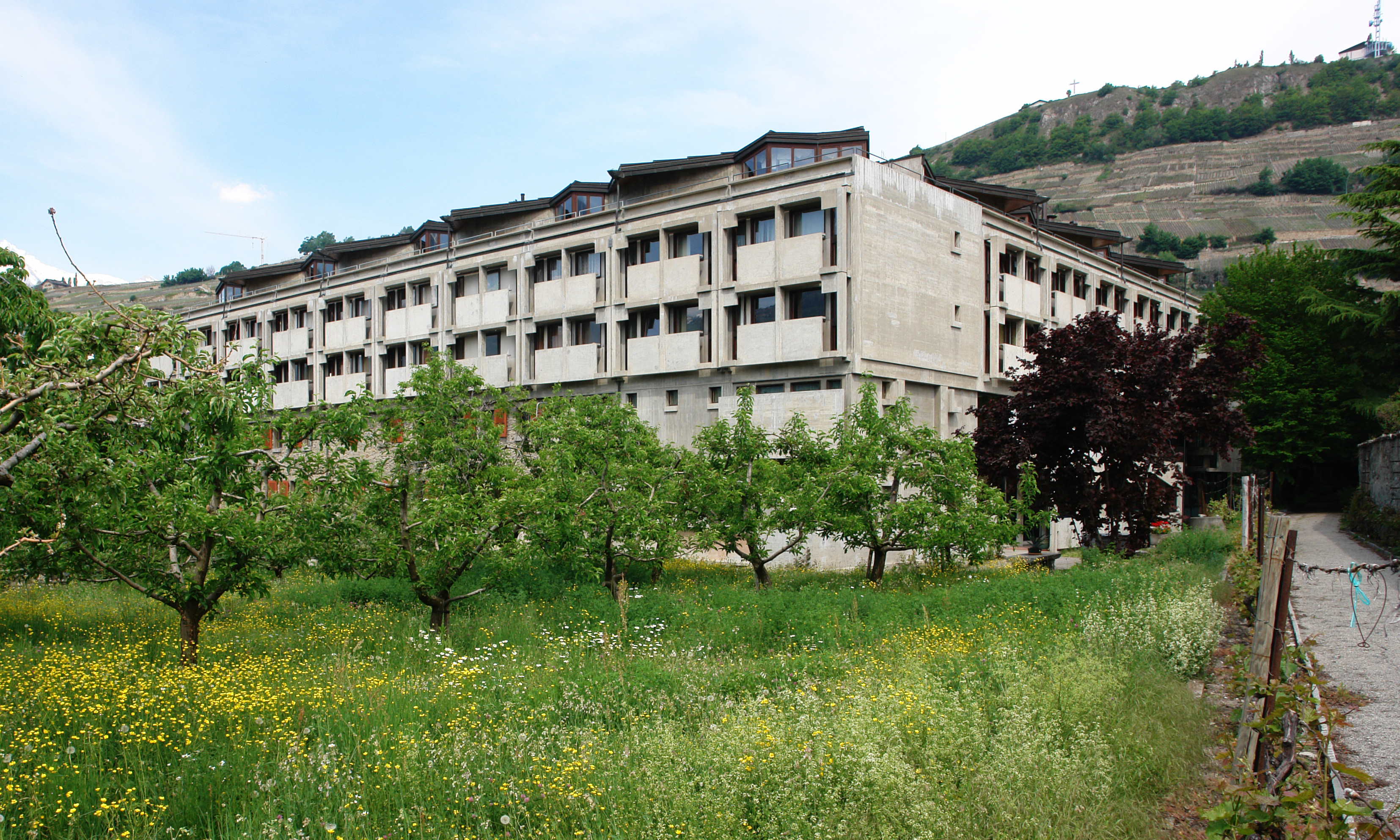 Former Capuchin Monastery, Sion, Valais, Switzerland; 1961-68, Architect: Mirco Ravanne